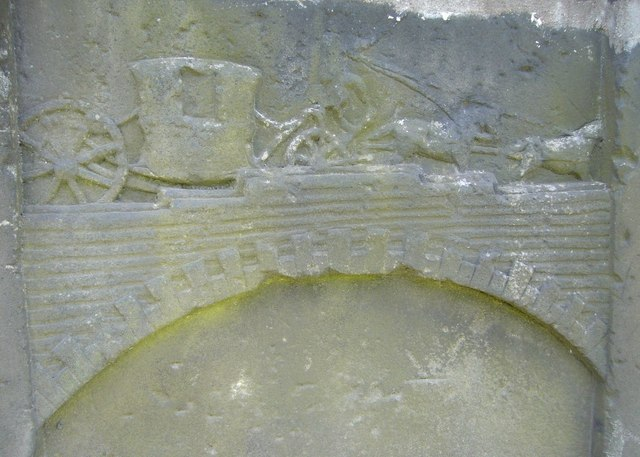 Detail on an 18thC gravestone - 'the Coachman's Stone' - in the Canongate kirkyard, "erected by the Society of Coach Drivers in Canongate for their members" in 1767. It shows a sprung stagecoach crossing a stream by a high-arched bridge with a low parapet. The coach has reached the crown of the arch and the driver is guiding the team of horses safely down the descent.